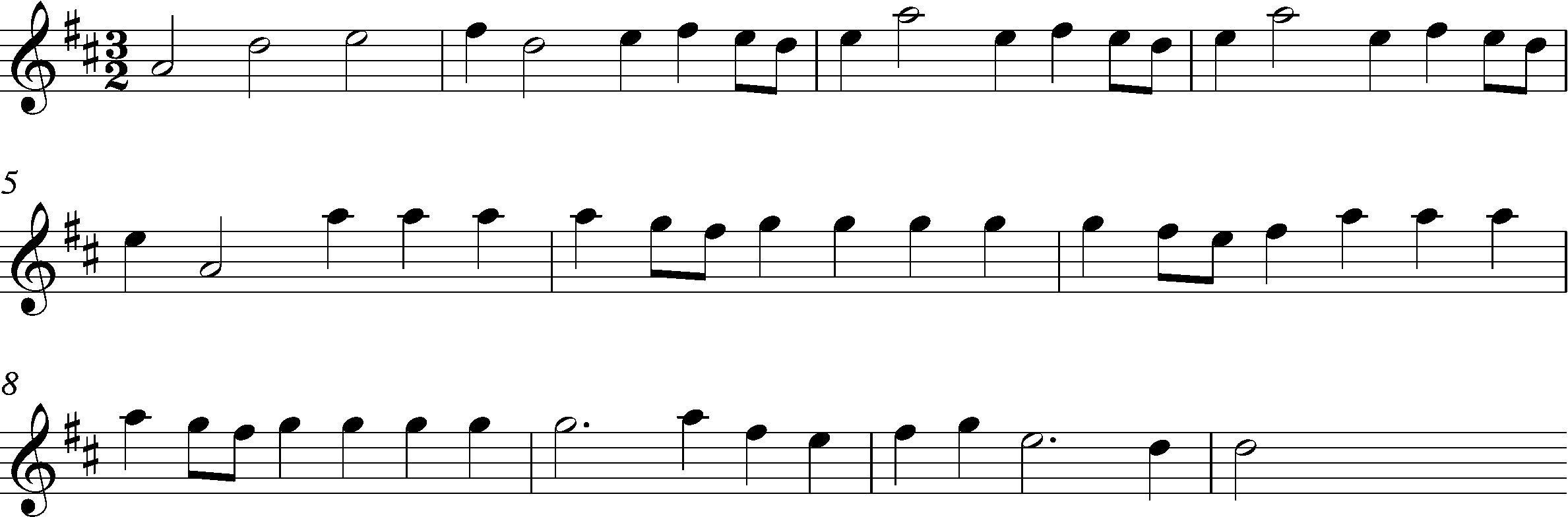 Handel, Hornpipe from Water Music